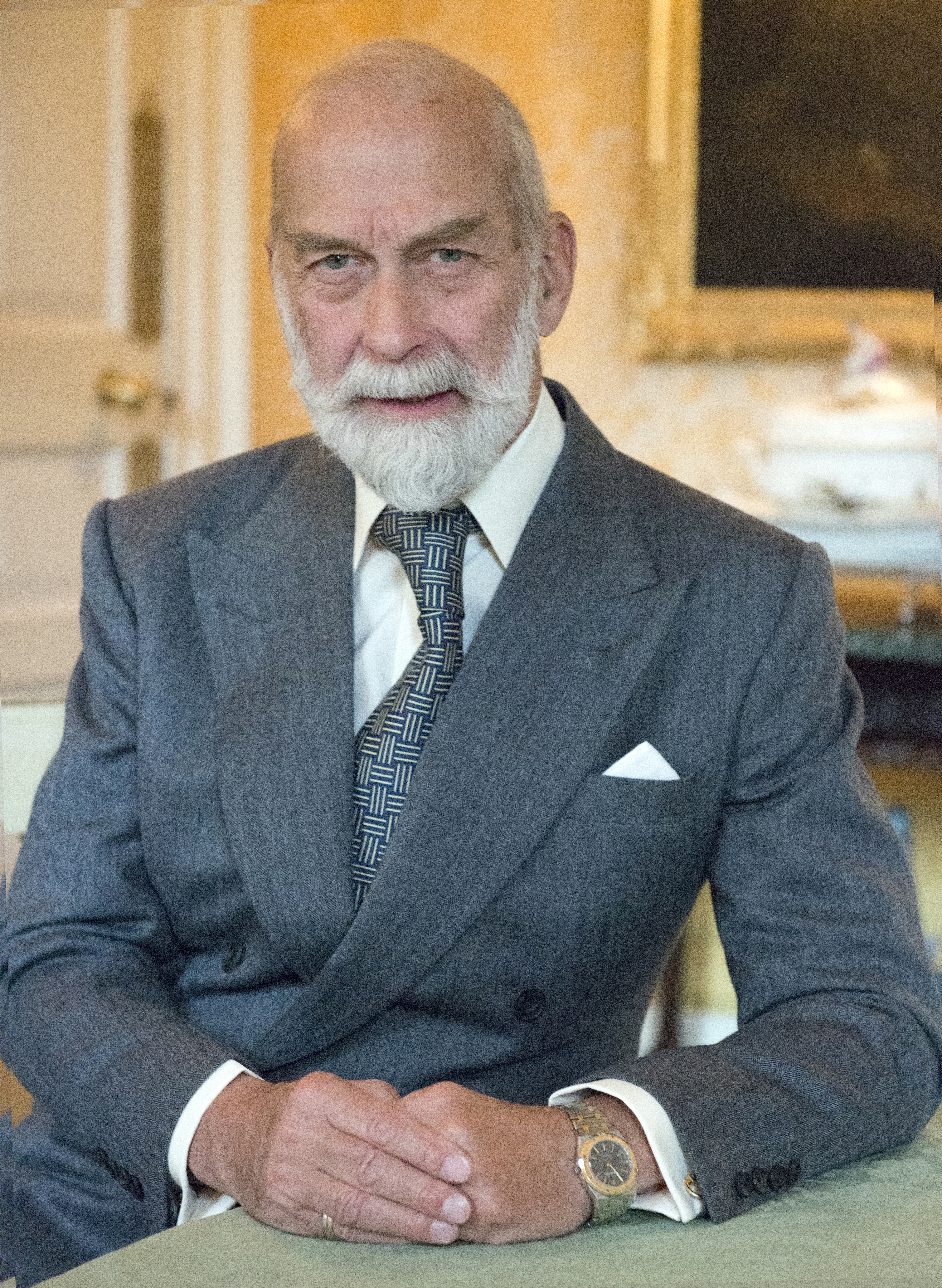 HRH Prince Michael of Kent